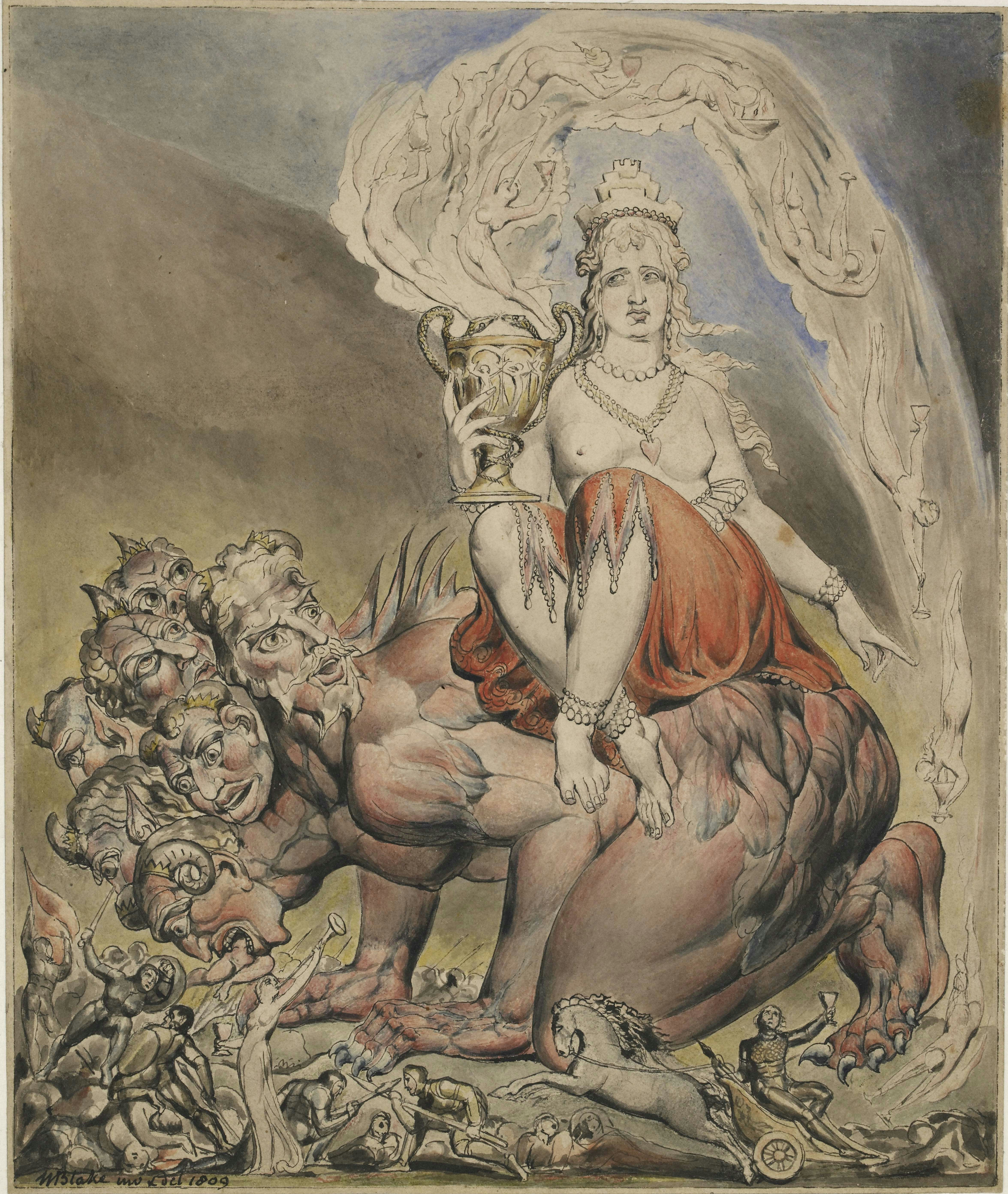 William Blake's interpretation of the Whore of Babylon with a triple tiara.